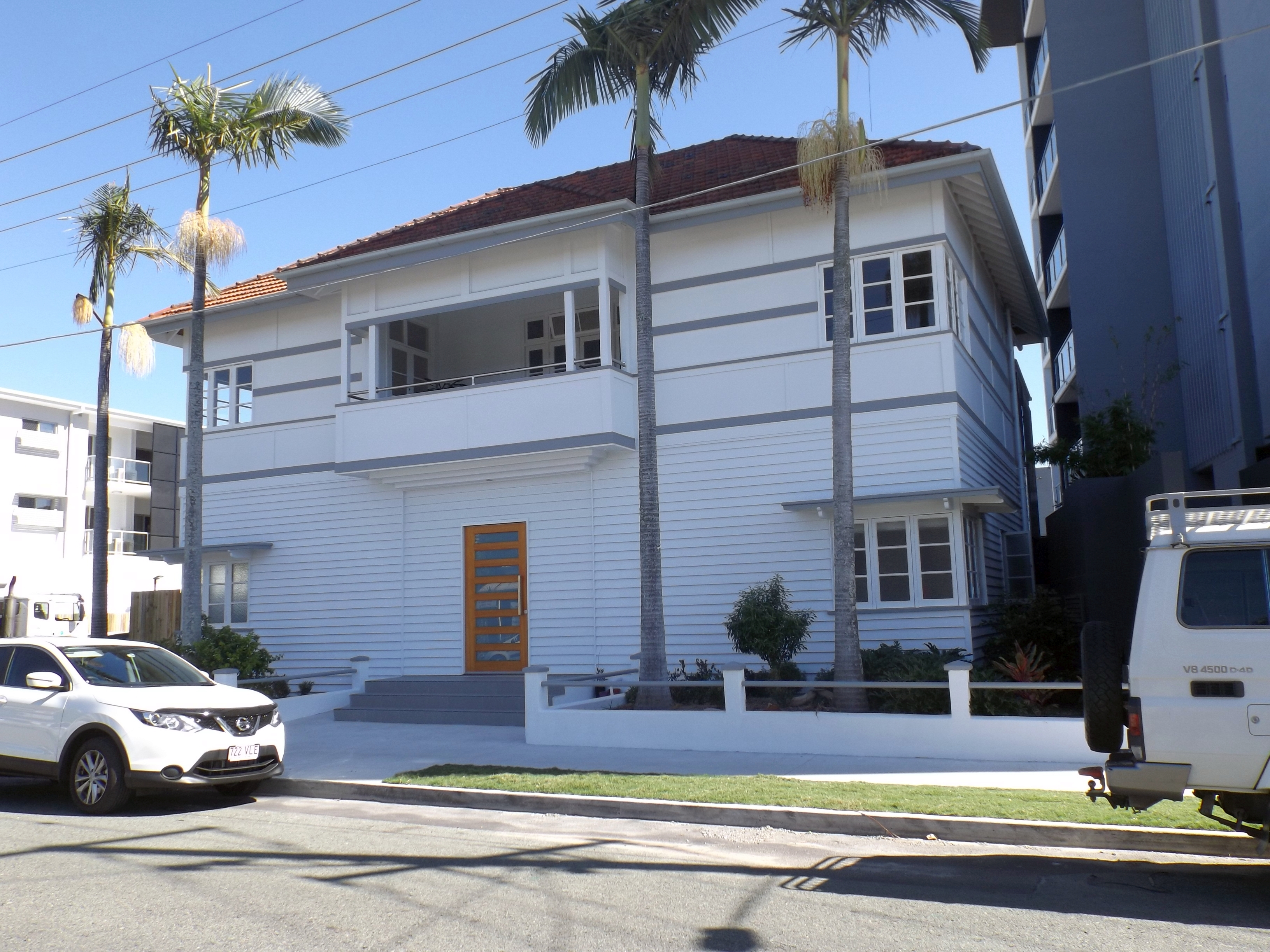 Photo of former Nundah Fire Station at Nundah, Brisbane, Queensland, Australia.